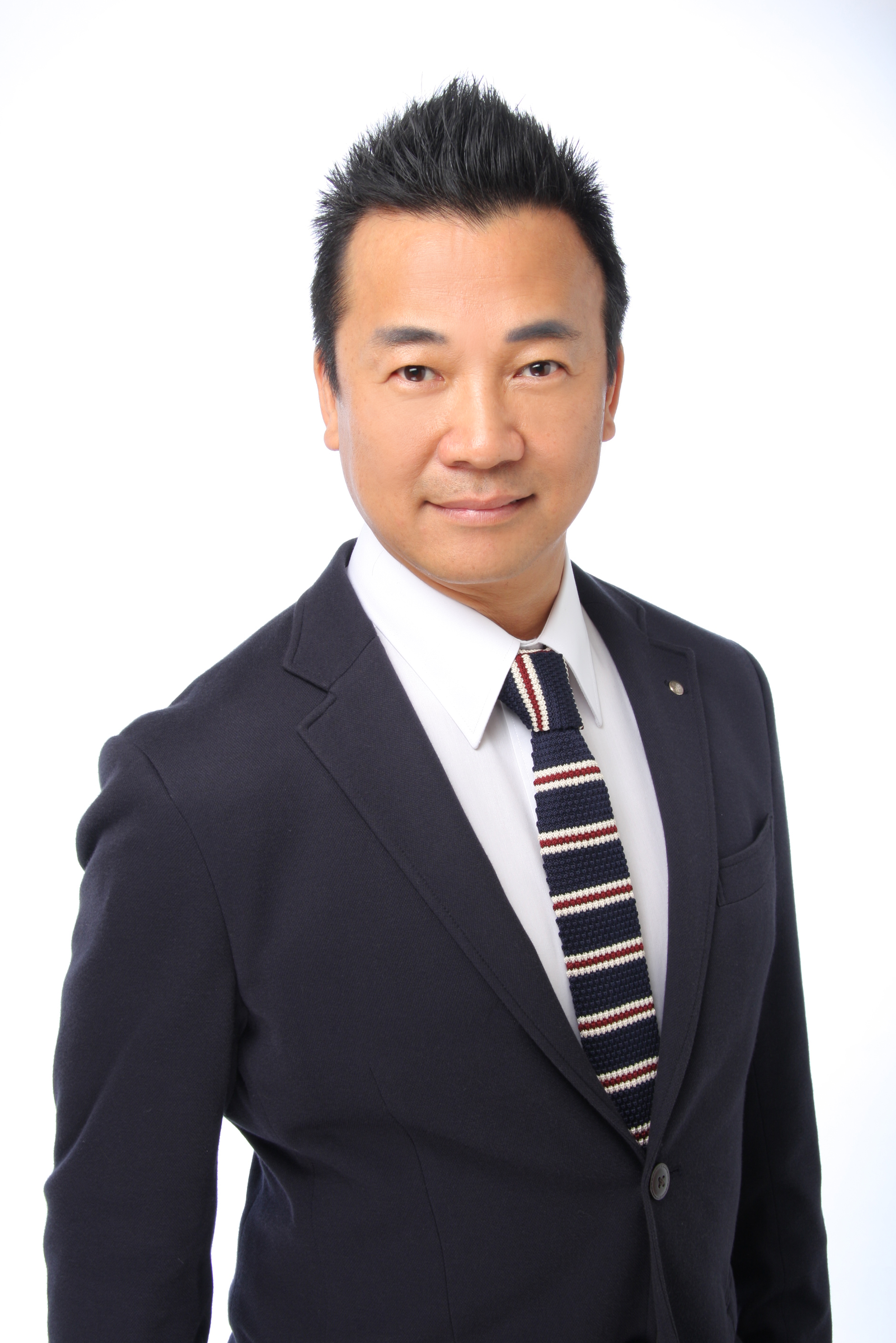 Nori Honjo 2015